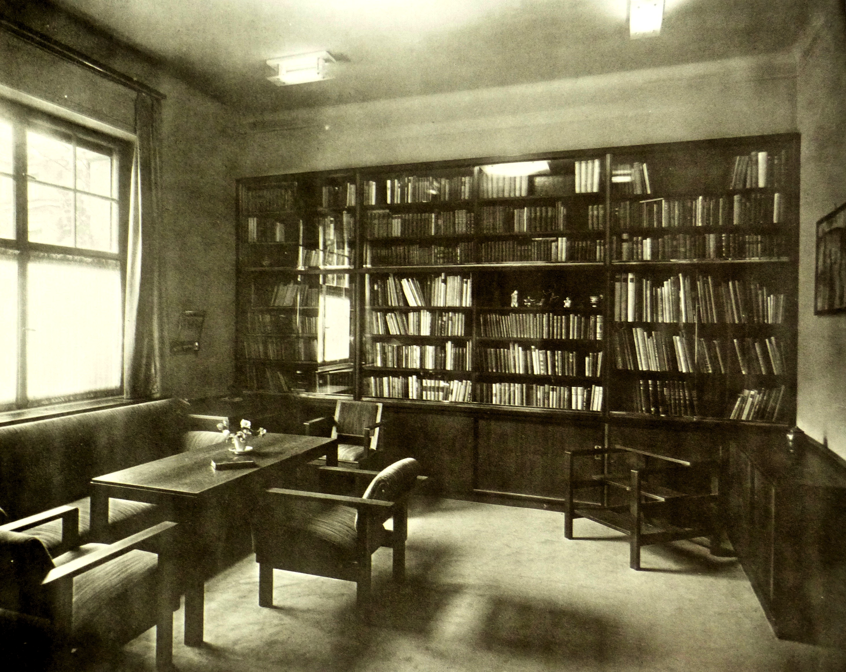 Library of Otto Bamberger in his villa in Lichtenfels, Upper Franconia, Bavaria, Germany. The interior was styled by furniture designer Erich Dieckmann (1896–1944) of Bauhaus Weimar. Translated description from the contemporary design mag: Cabinets with crystal glass doors. Wood: bog oak. Velor flooring: ivory colored. Wall: ocher. Curtain: raw silk natural. Built-in low cabinets all around.